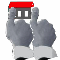 Distance measering with double thumbs, self created 2006 by Dr. Wessmann